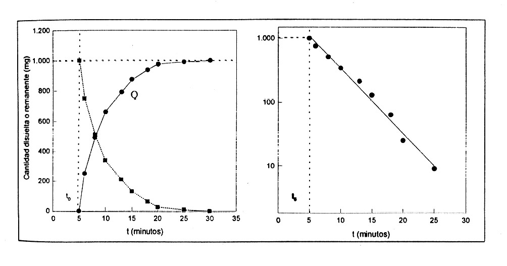 Orden 2